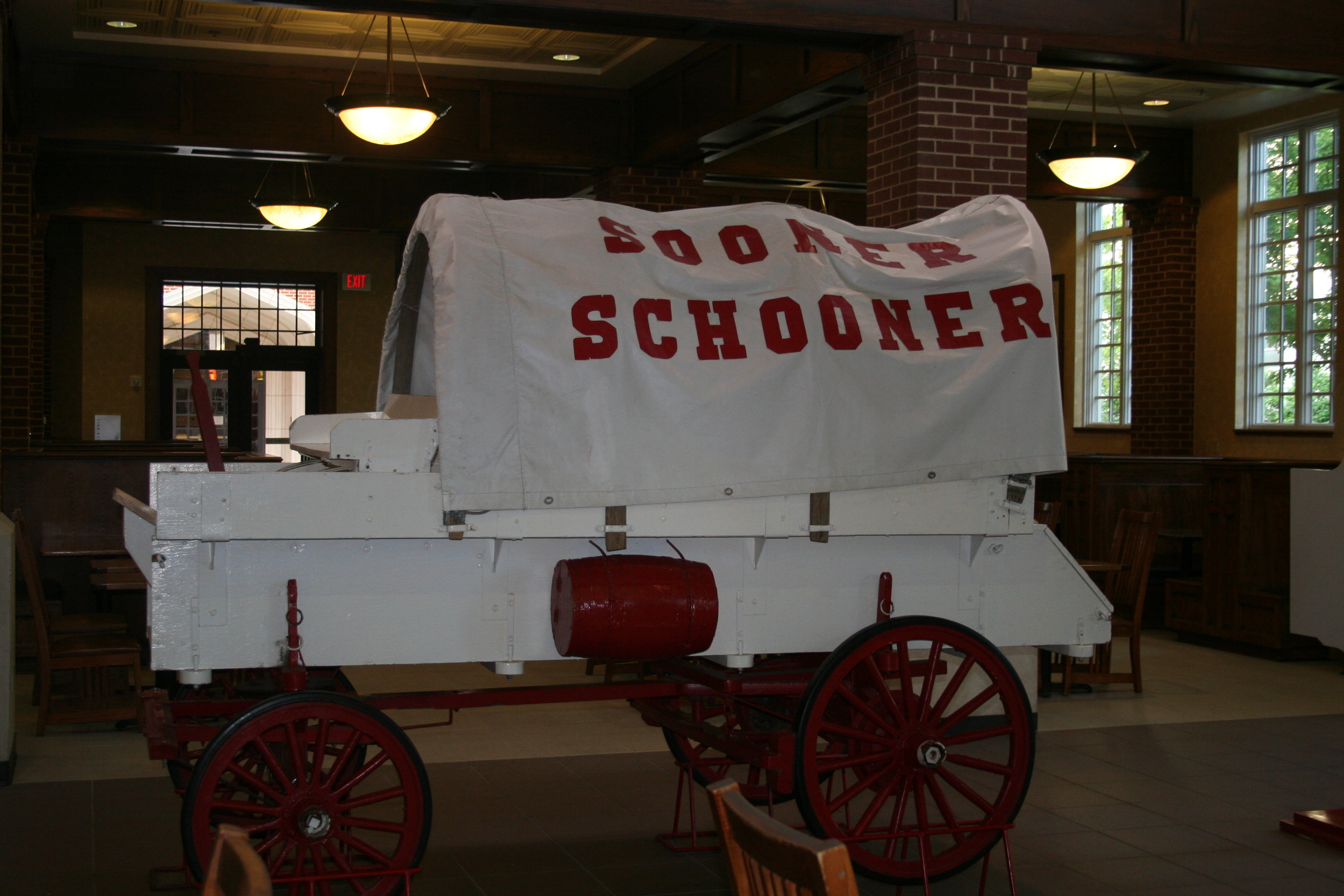 University of Oklahoma, Sooner Schooner inside of the dining area of OMU